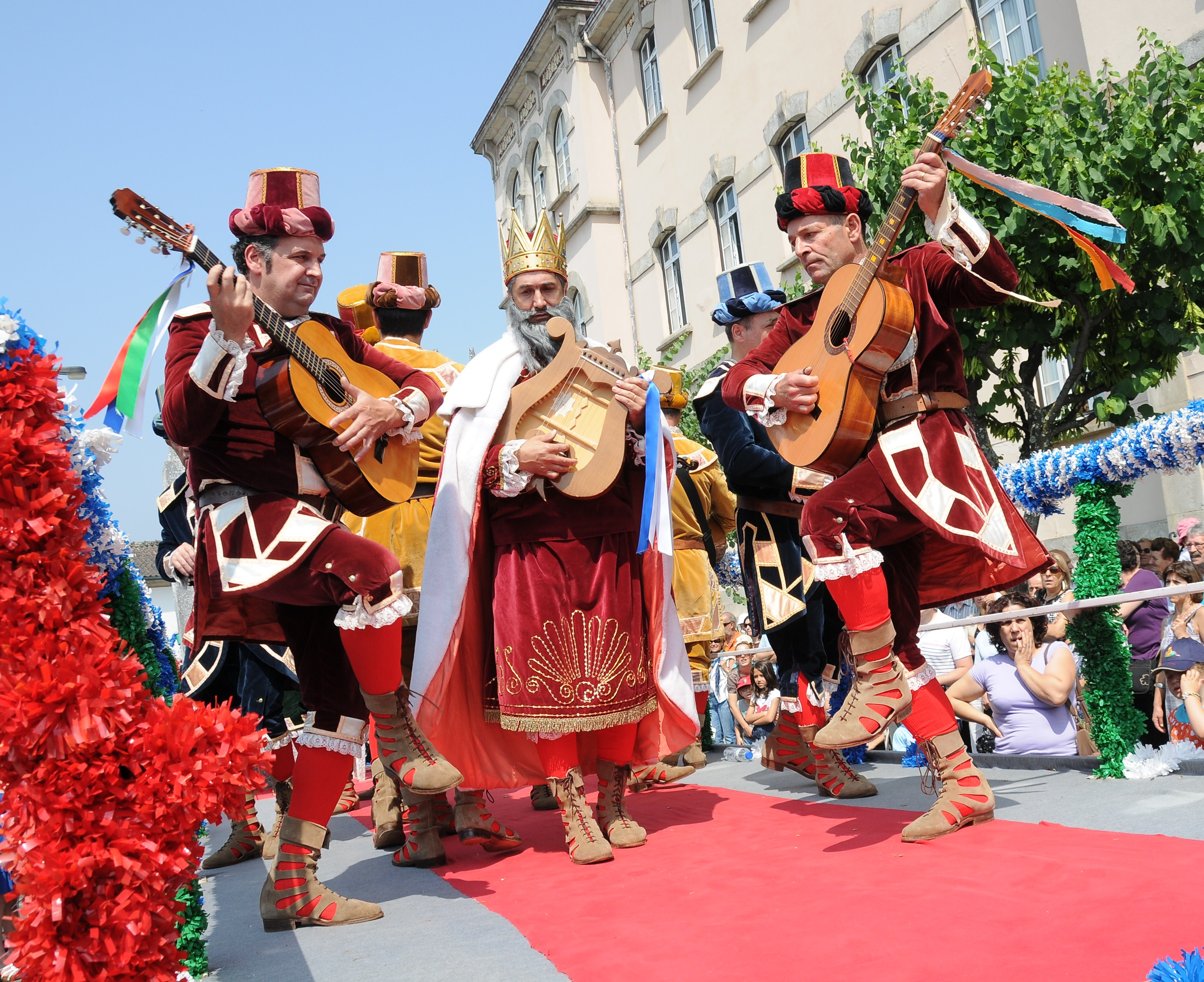 King David dance in Saint John Party, Braga, Portugal